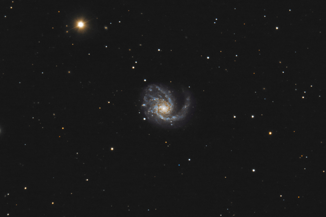 Messier 99 in the constellation Coma Berenices